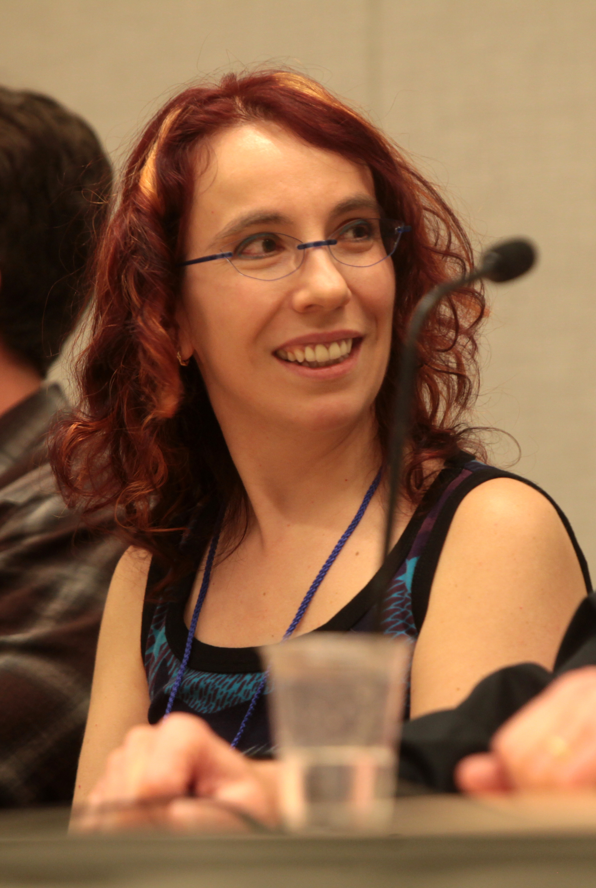 Naomi Novik speaking at the 2014 Phoenix Comicon